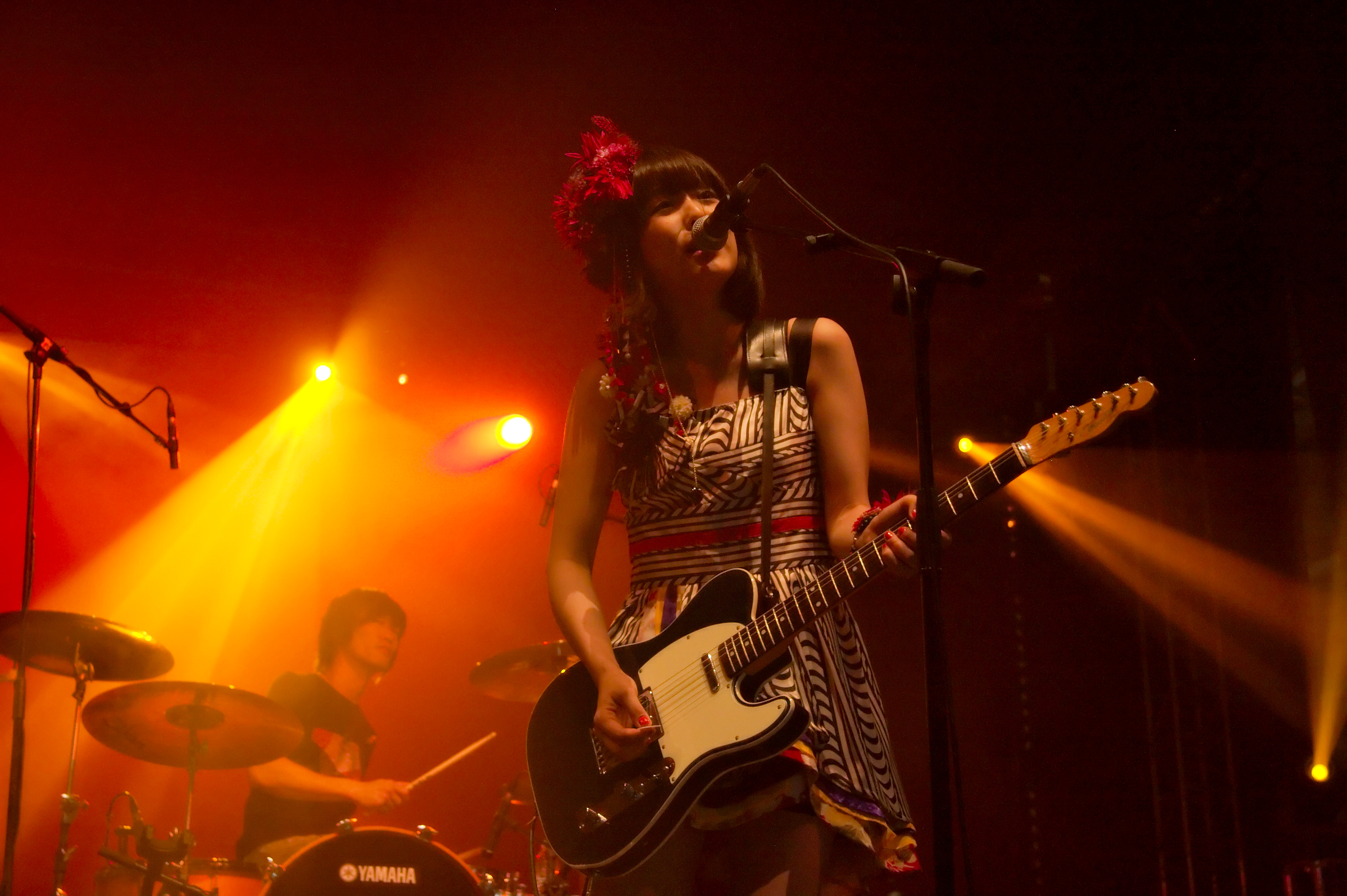 School Food Punishment live at Japan Expo 2009 (Paris, France)